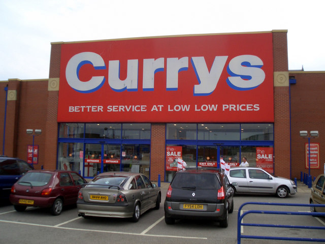 Currys. Currys store, Victoria Street North. This familiar type of facade will probably disappear in the current revamp of the Dixon's Group retail outlets.